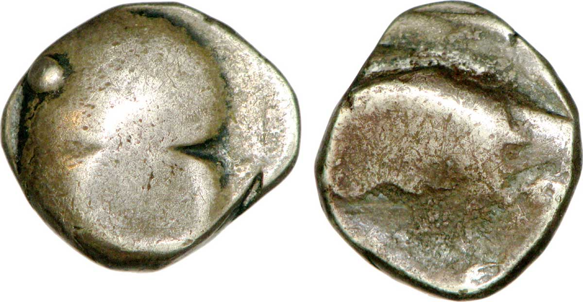 Drachme à la paire de fesses frappé par les Tarusates Date : IIe siècle av. J.-C